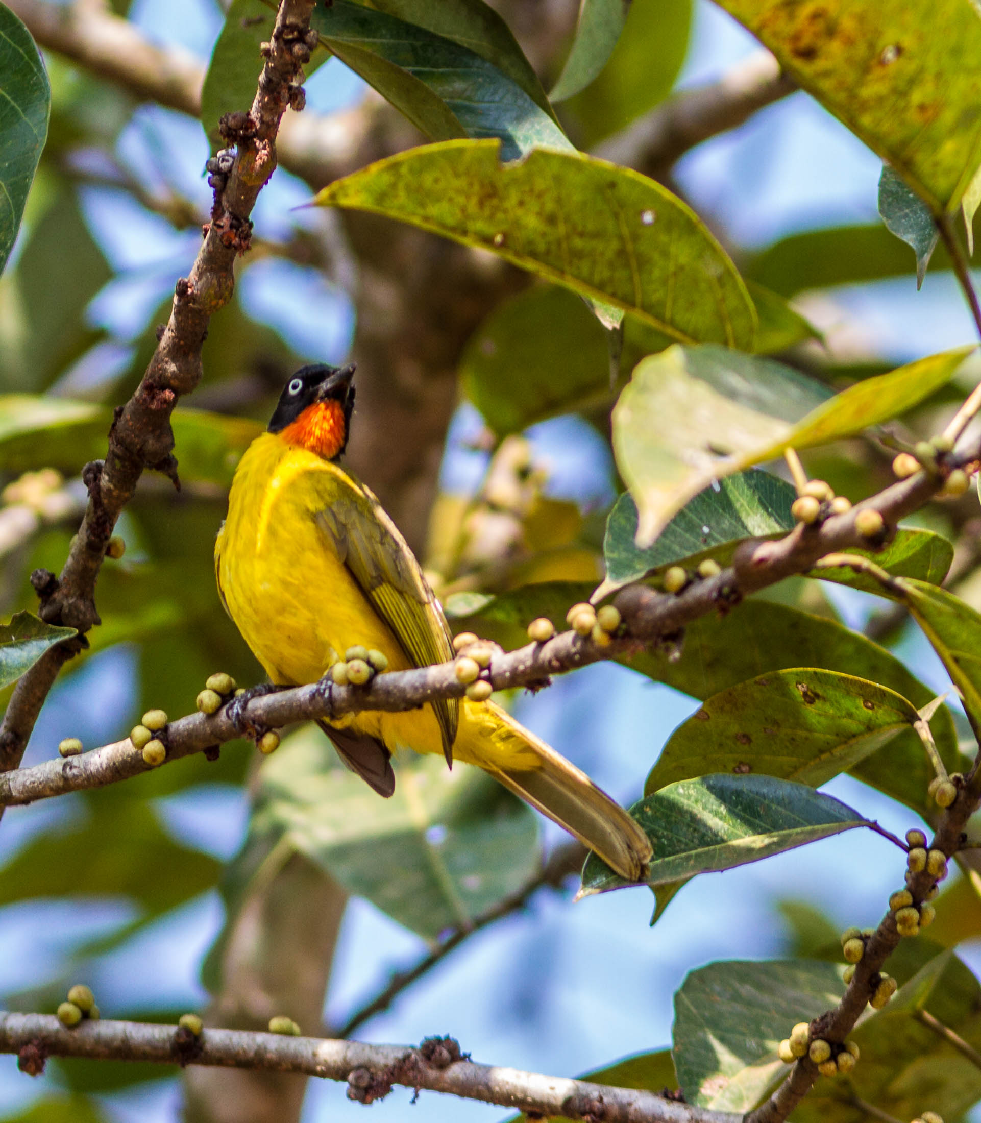 This Flame-throated Bulbul Pycnonotus gularis was also photographed in forest area near Karkala, Karnataka, India during my birding activity in Karkala area